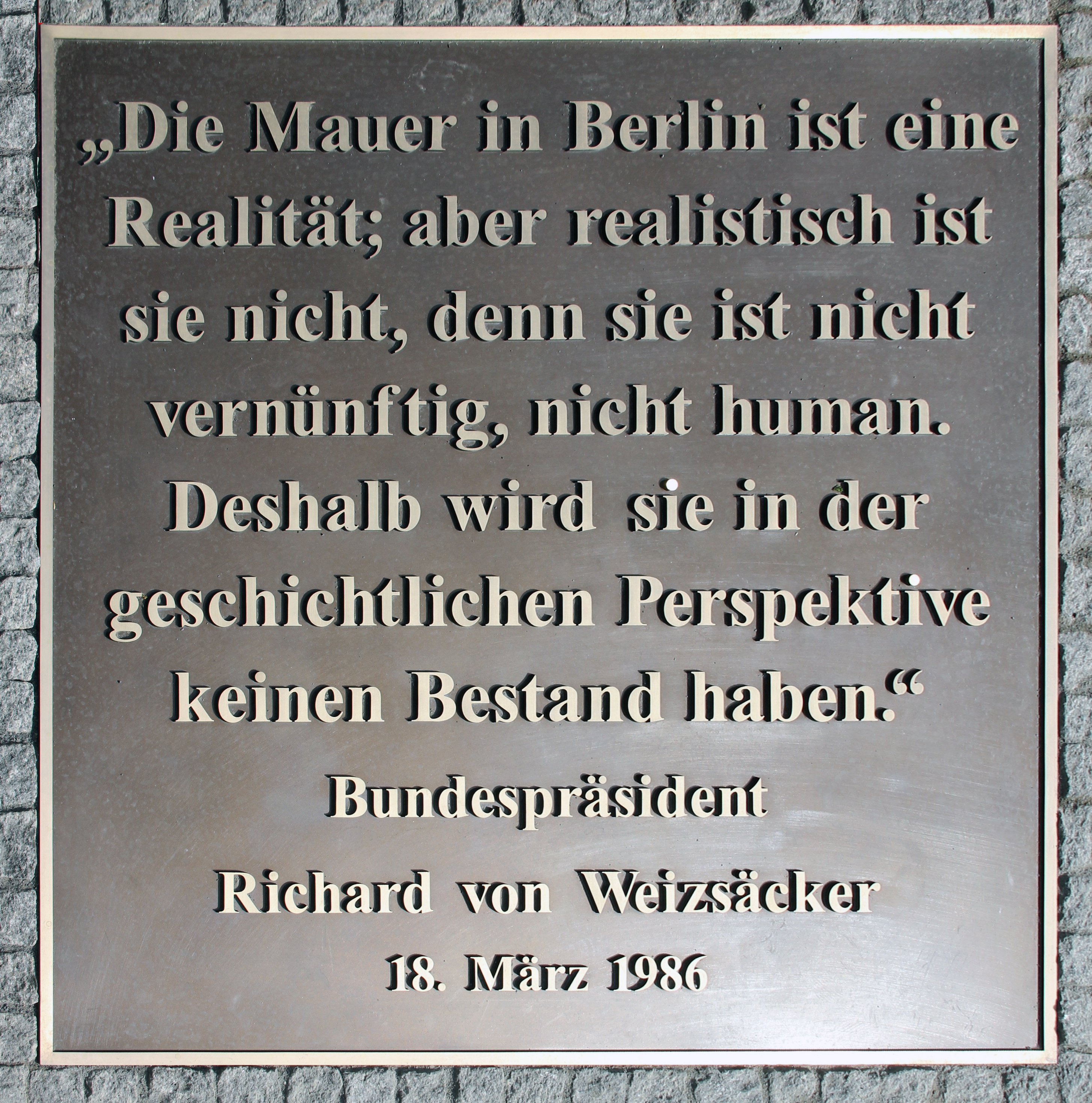 Memorial plaque, Richard von Weizsäcker, Axel-Springer-Straße 65, Berlin-Kreuzberg, Germany